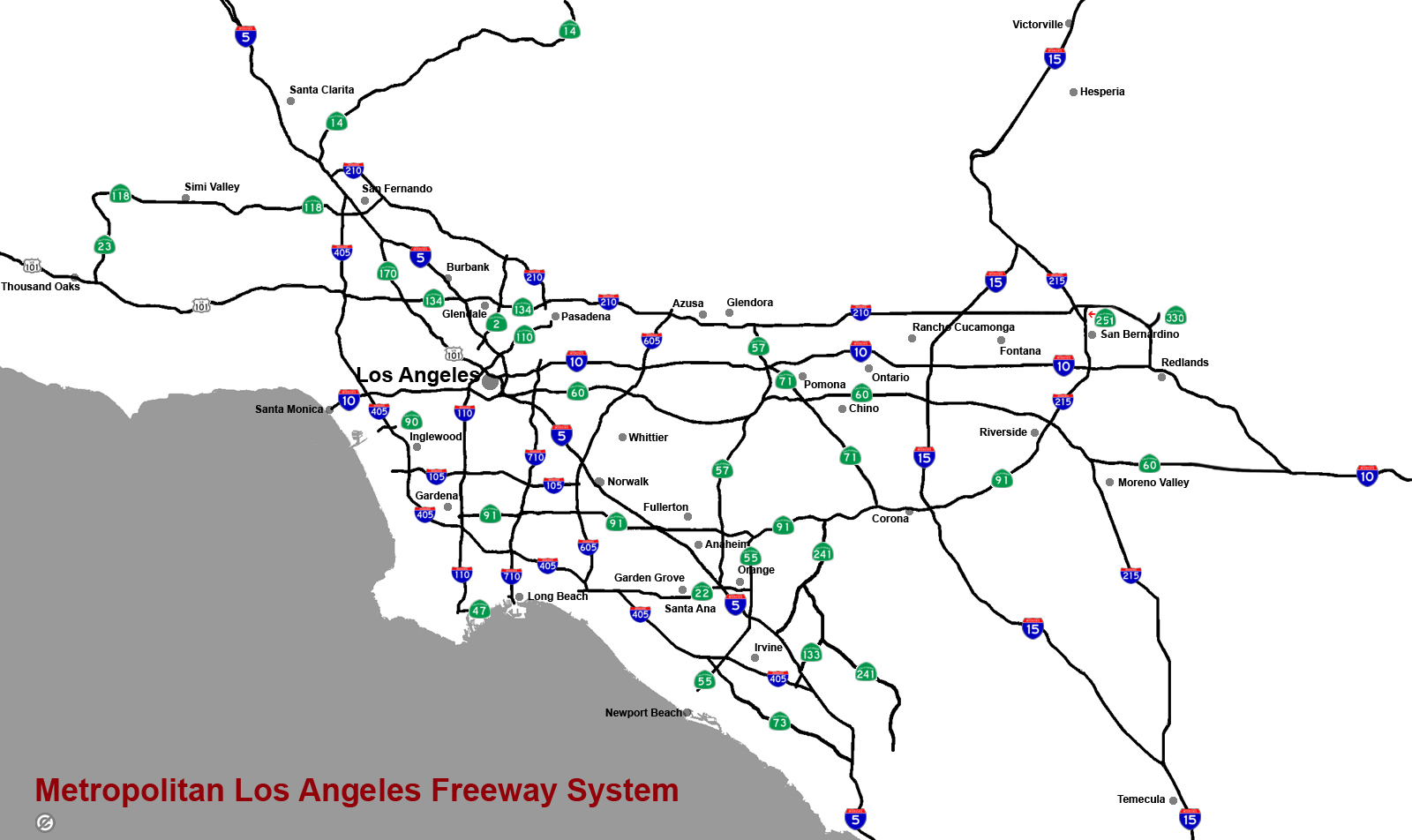 Map of the Metropolitan Los Angeles Freeway system Created by User:Mikeetc